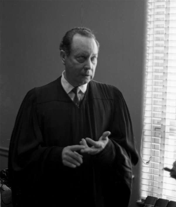 Florida Supreme Court Justice T. Frank Hobson Sr. in Tallahassee.